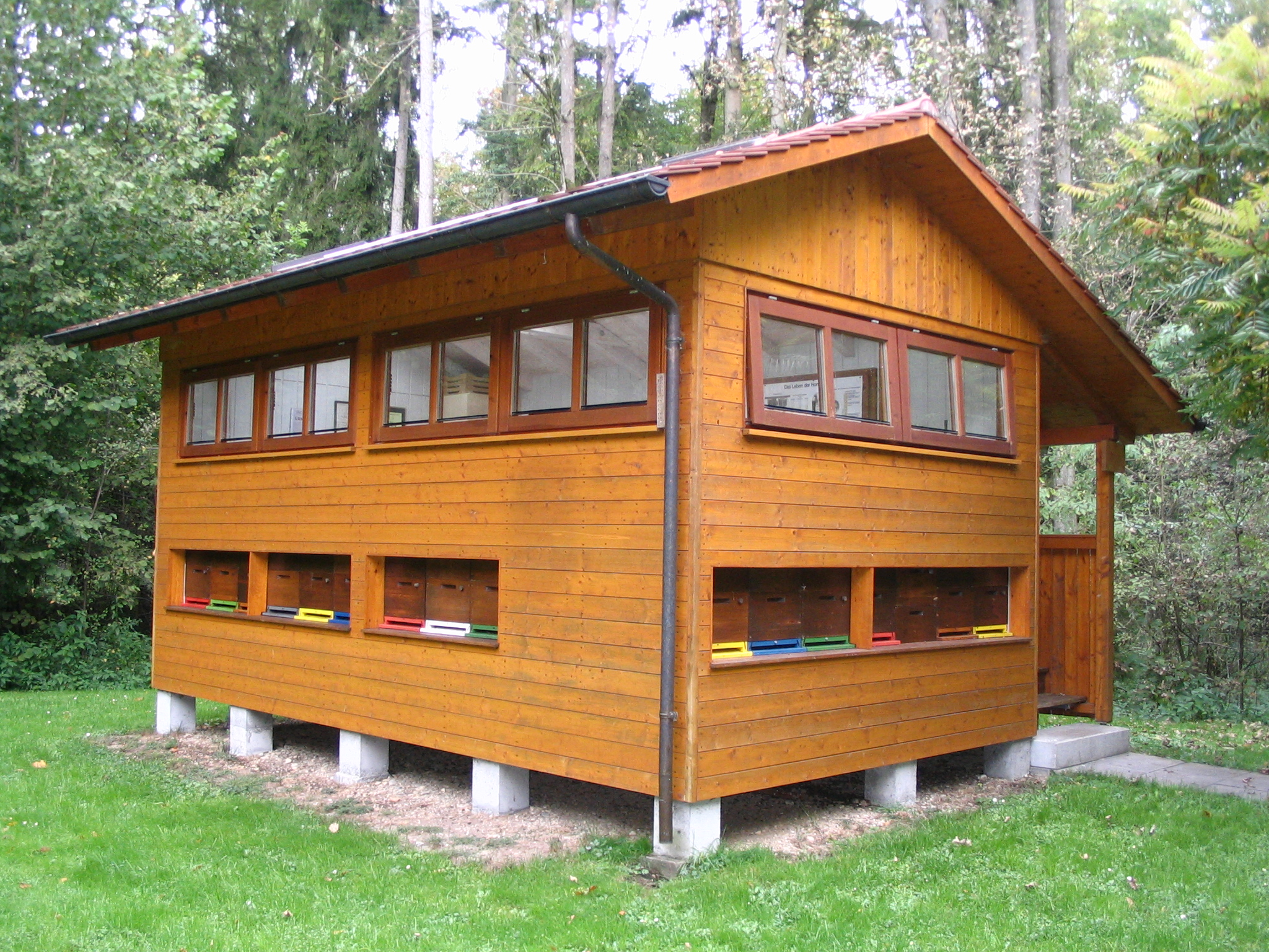 Beehives